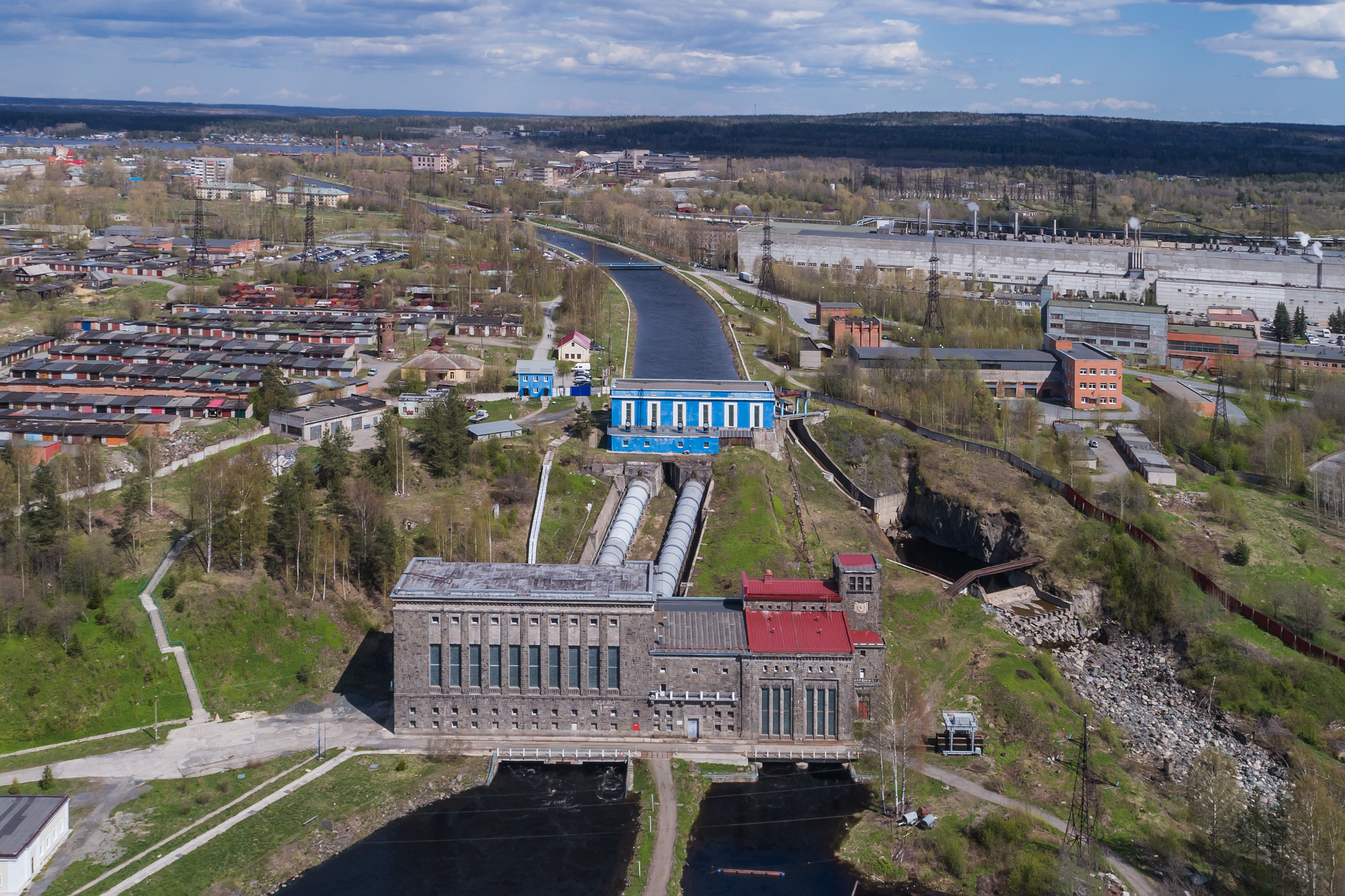 Aerial photo of the HPP in Kondopoga, Republic of Karelia (Russia).